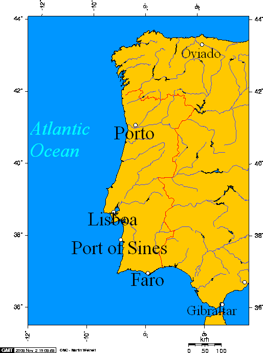 Porto, Lisboa, Port of Sines, Faro, on the Portuguese coast.